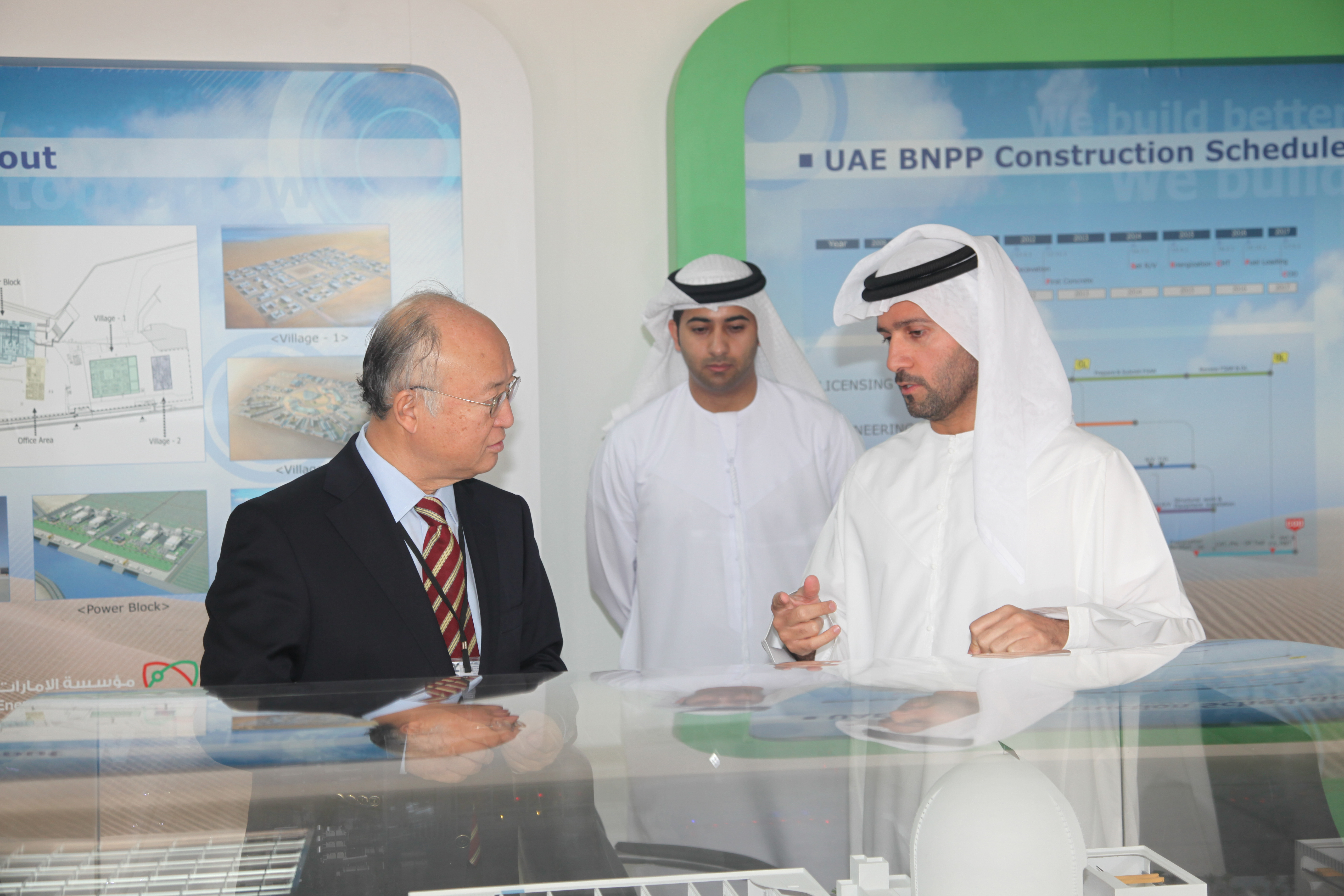 IAEA Director General Yukiya Amano at Barakah nuclear power plant construction site, United Arab Emirates Mr. Mohamad Al Hammadi (right), Chief Executive Officer of the Emirates Nuclear Energy Corporation (ENEC), together with Ambassador Hamad Al Kaabi (middle), Resident Representative of the United Arab Emirates to the IAEA, brief IAEA Director General Yukiya Amano at the Barakah nuclear power plant Visitor Centre during the Director General's official visit to United Arab Emirates. 29 January 2013 Photo Credit: ENEC